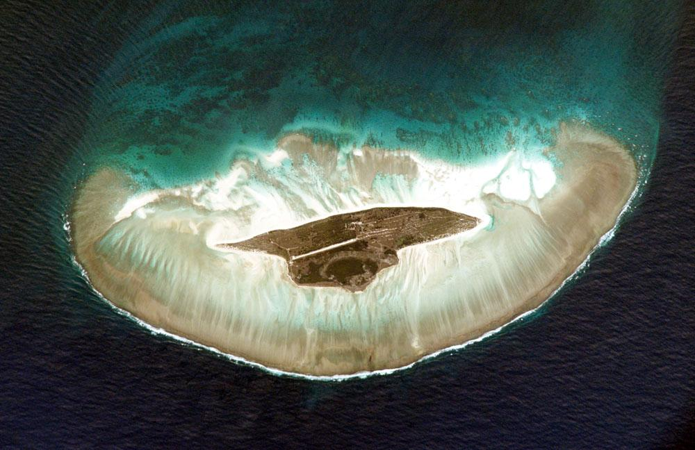 NASA atronaut image of Juan de Nova Island, Indian Ocean